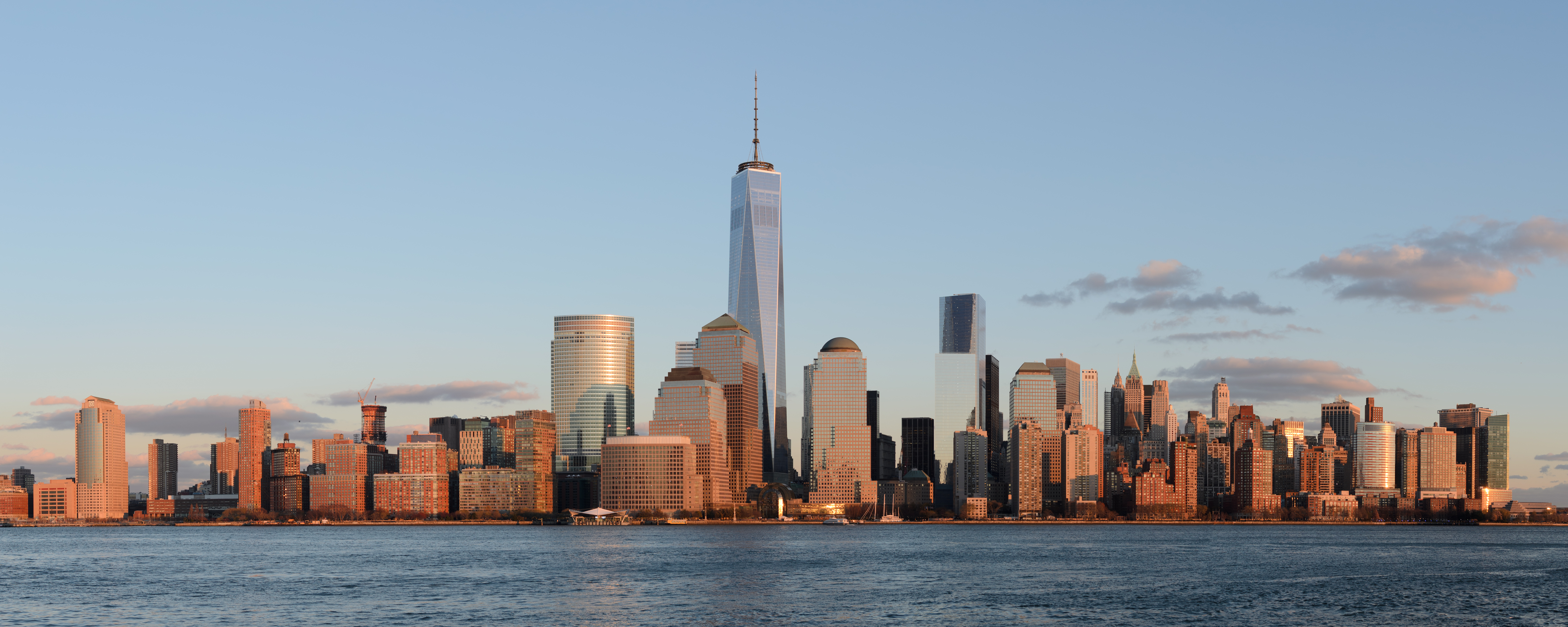 Four-segment panorama of Lower Manhattan, New York City, as viewed from Exchange Place, Jersey City, New Jersey.